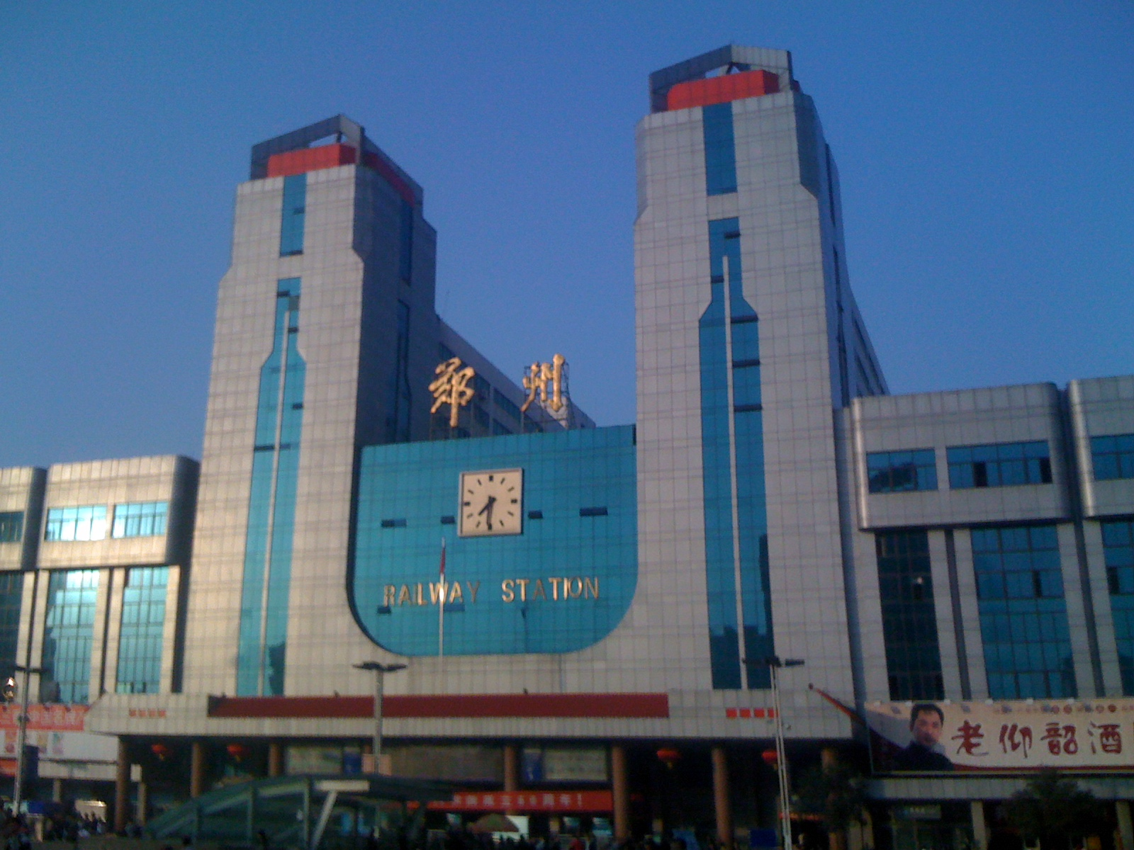 Zhengzhou Railway Station